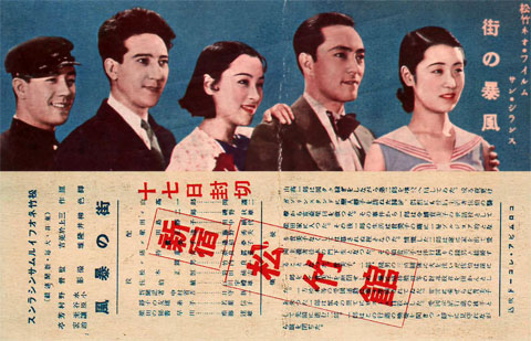 From left: Asio Isono, Ureo Egawa, Yumeko Aizome, Joji Oka and Kinuyo Tanaka in the 1934 film Machi no bōfū